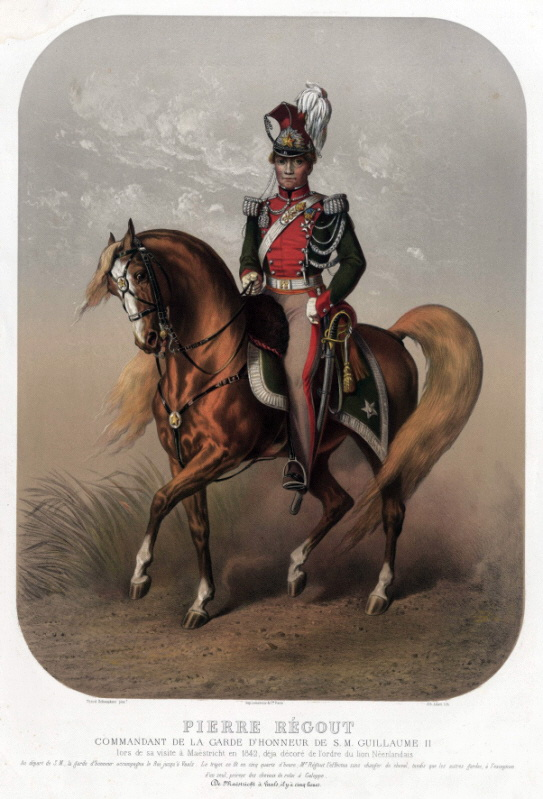 Equestrian portrait of the Maastricht entrepreneur, politician and "nouveau riche" Petrus Regout (1801-1878) as a military guards man. Print from an album titled Album dedié a mes amis et mes enfants that Petrus Regout had put together around 1869 for family and friends to show off his wealth. It mainly contained prints of his real estate and some portraits. Throughout the 1860s various versions were printed.